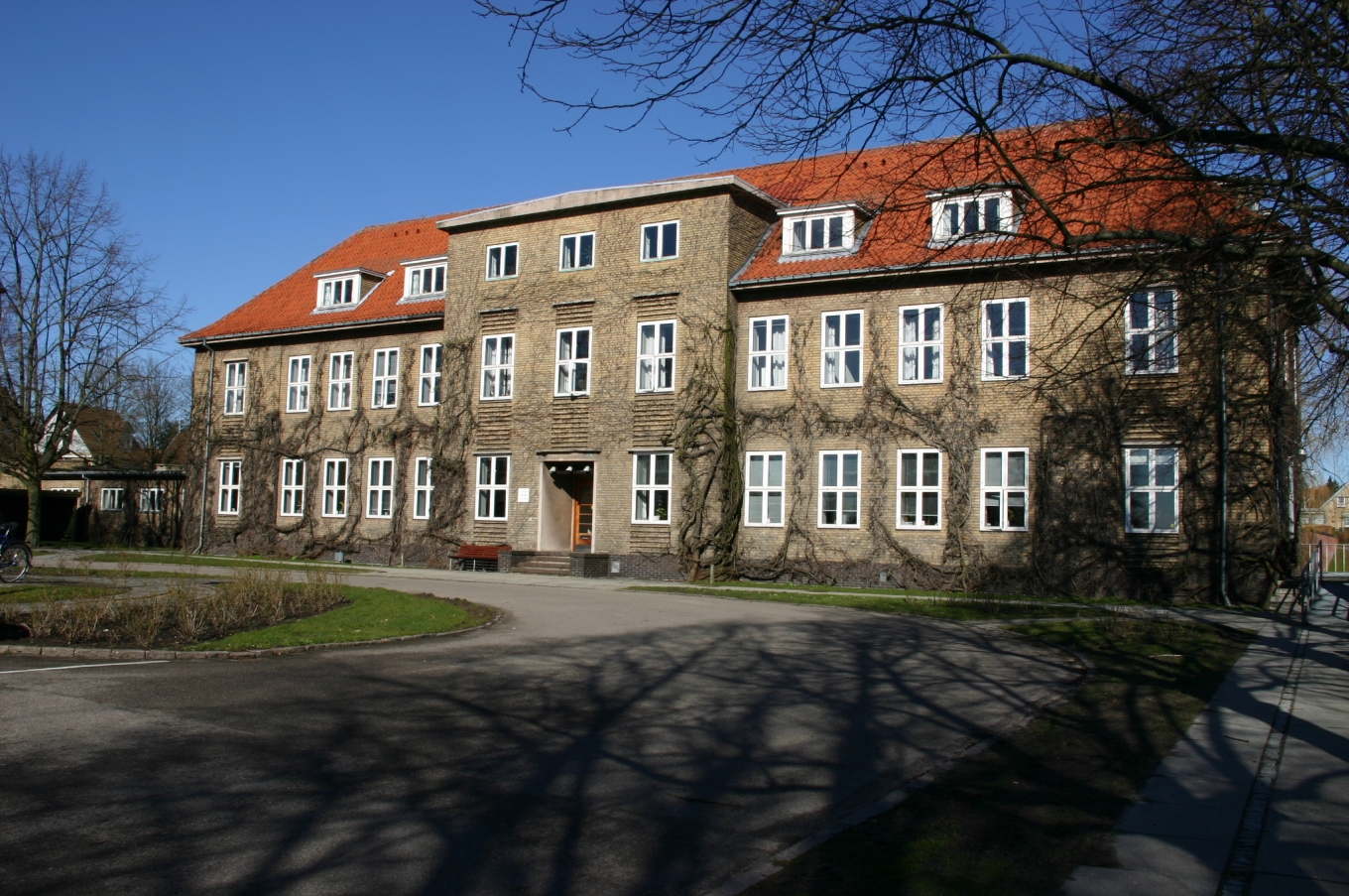 The former building for the central administration of Åbyhøj, a suburb of Aarhus.